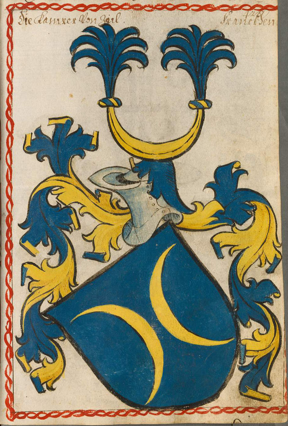 Coat of arms of the von Fulbach family.